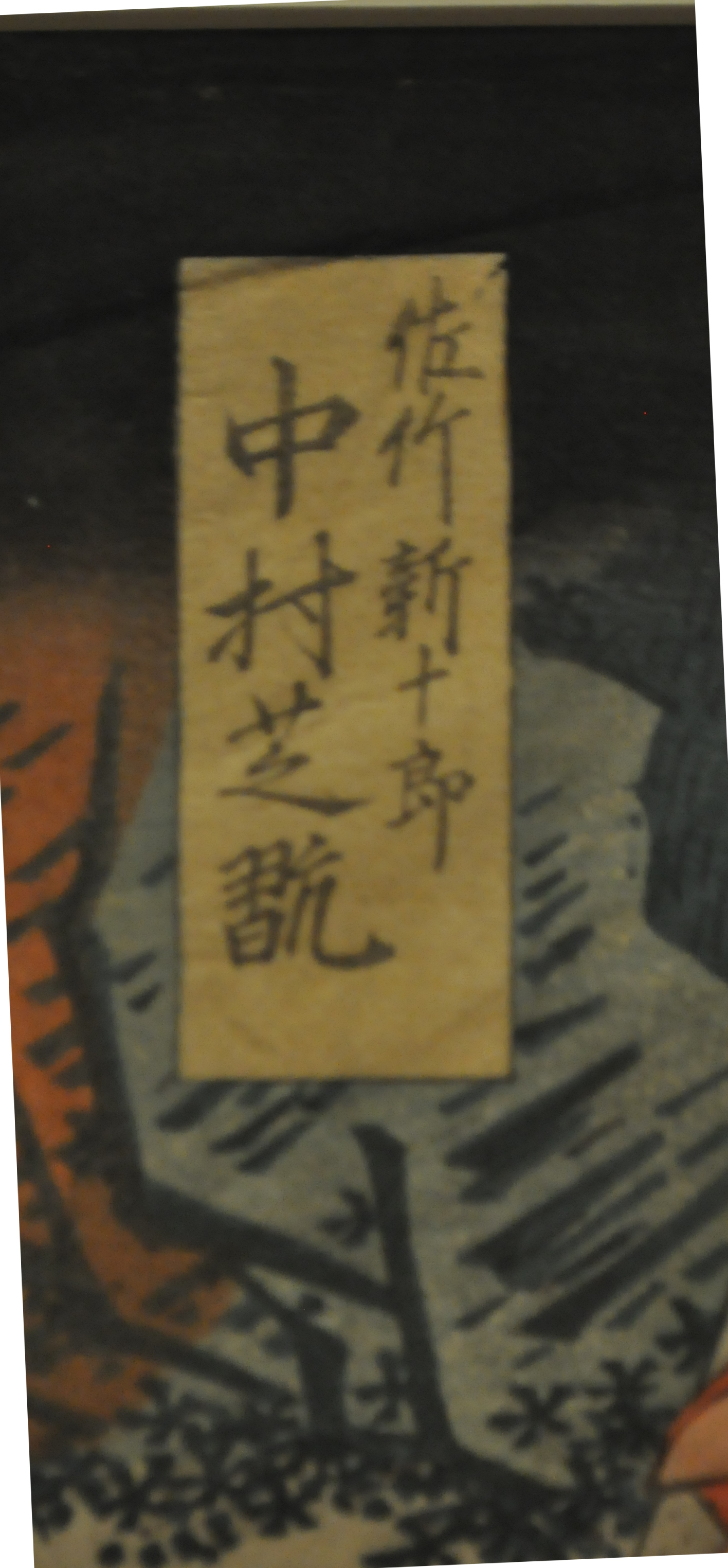 Actor Nakamura Shikan II as Satake Shinjuro (Shungyosai Hokusei) - Actor/ character name cartouche detail